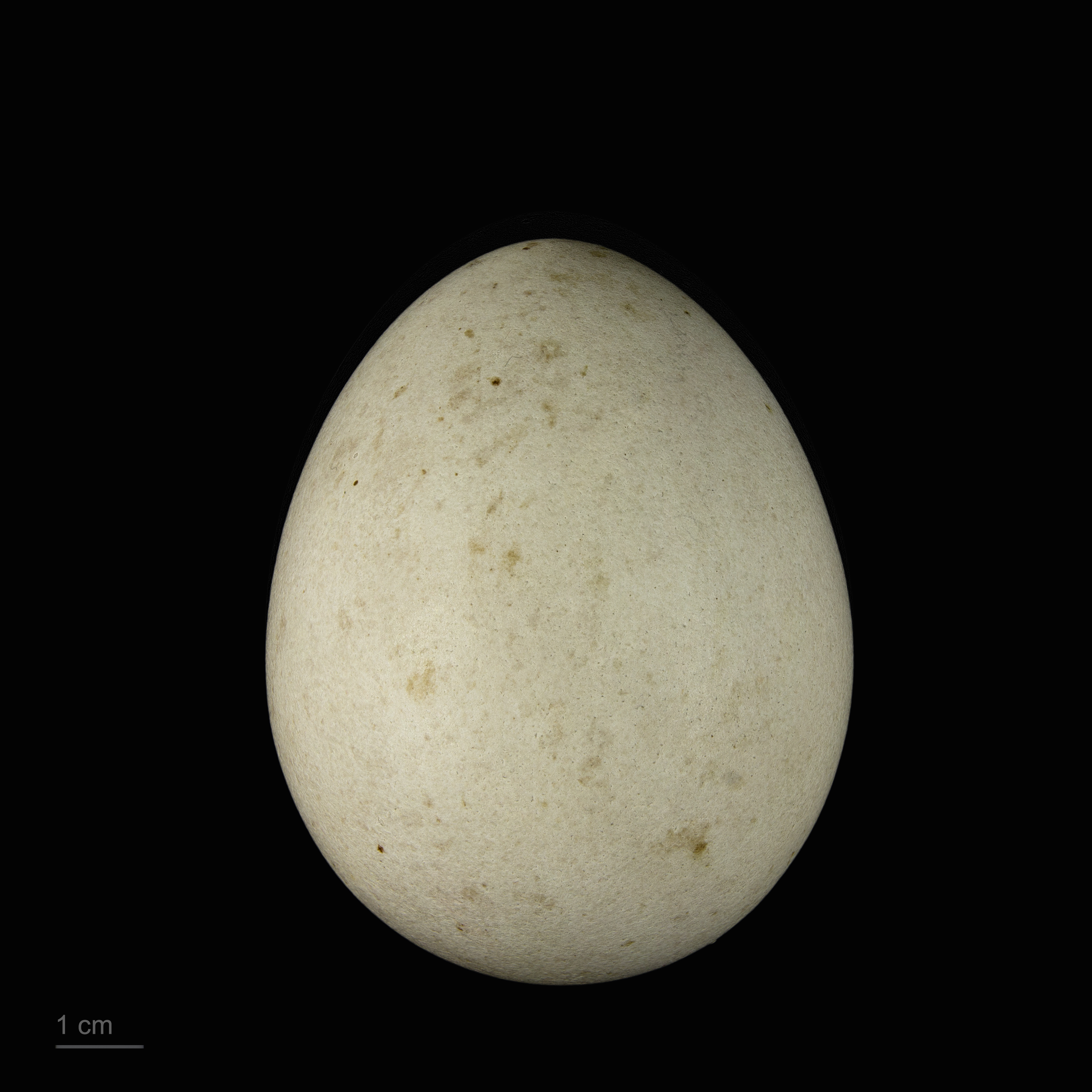 Eggs of eastern imperial eagle collection of Jacques Perrin de Brichambaut.